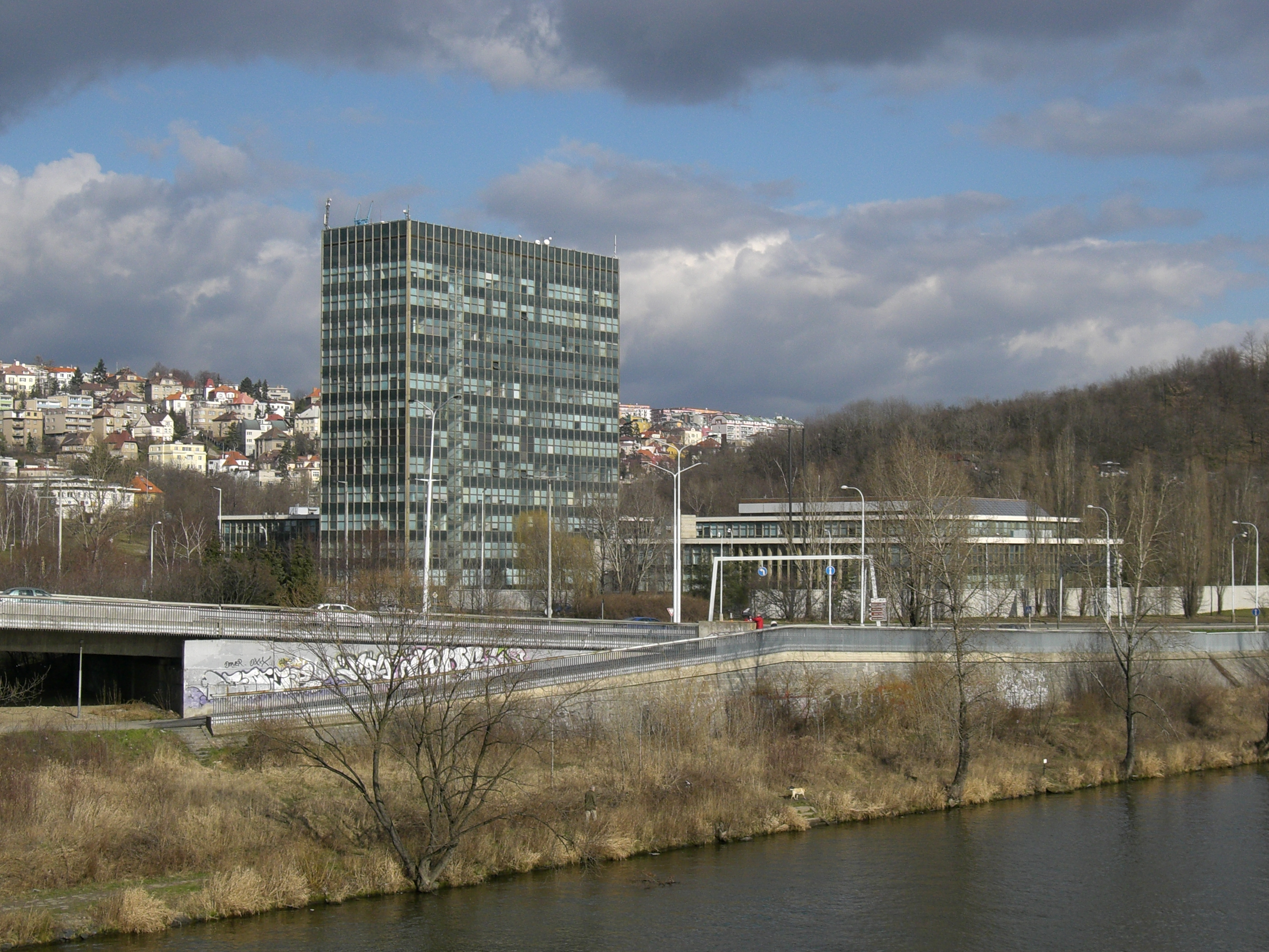 Faculty of Mathematics and Physics of Charles University in Prague